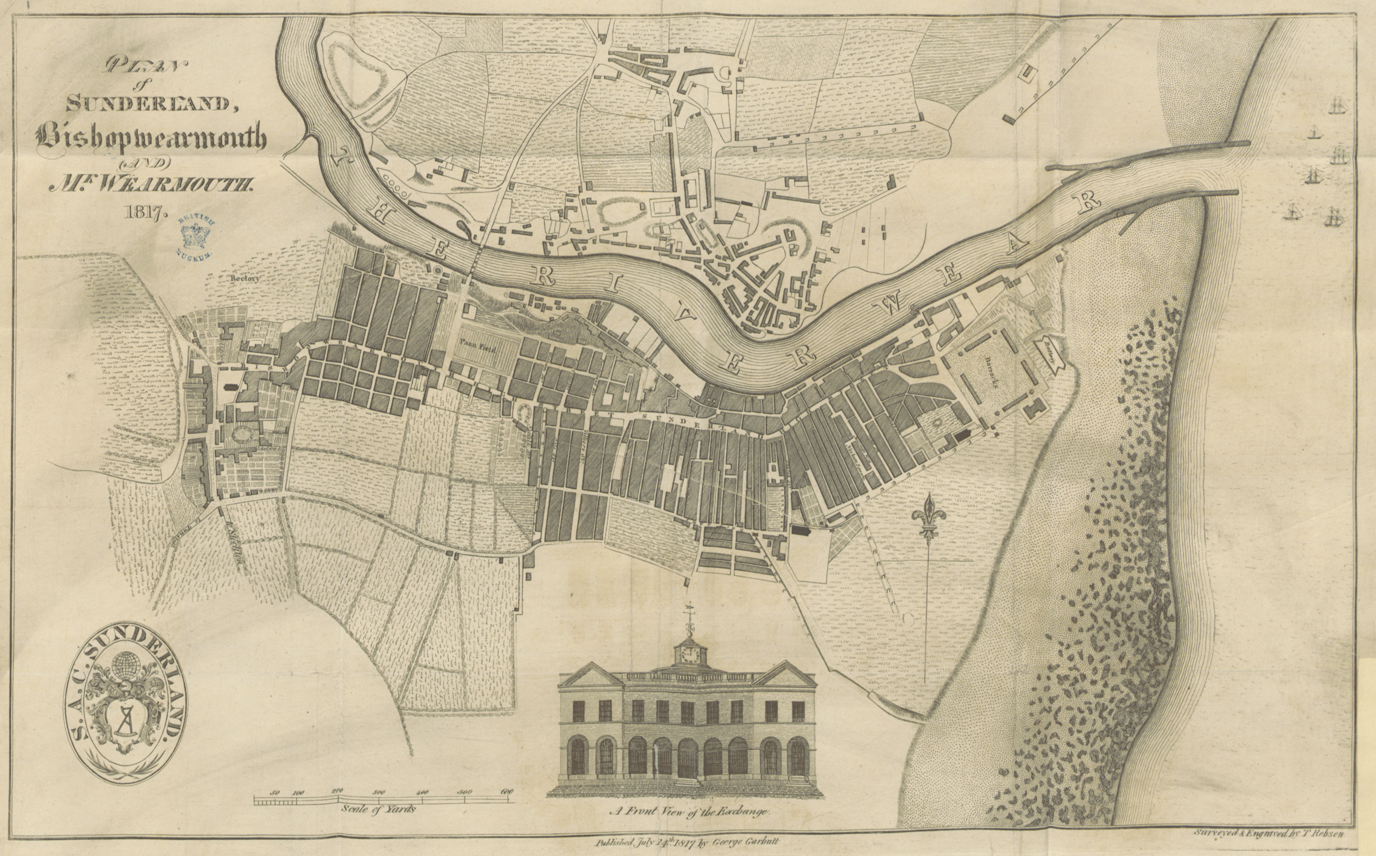 Image taken from: "A historical and descriptive view of the Parishes of Monkwearmouth and Bishopwearmouth and the Port and Borough of Sunderland, etc" by George Garbutt (page 19); published: Sunderland, 1819.